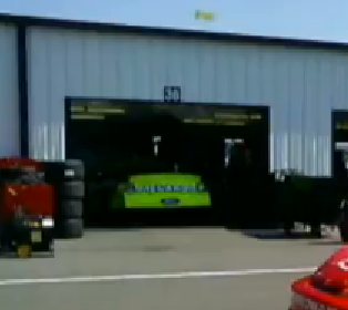 Preparation takes place on Jones' 2007 Pennsylvania 500 entry.